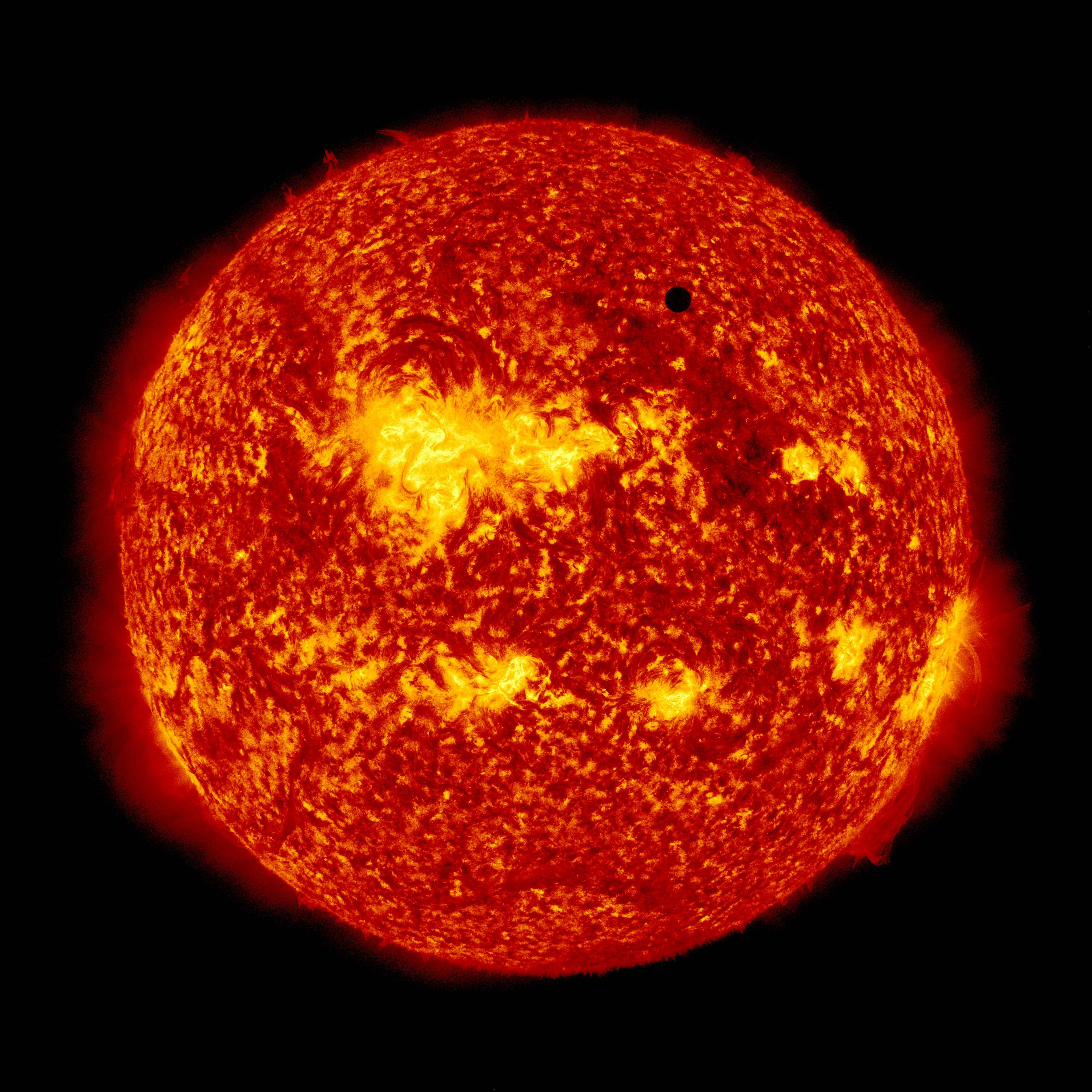 On June 5-6 2012, SDO is collecting images of one of the rarest predictable solar events: the transit of Venus across the face of the sun. This event happens in pairs eight years apart that are separated from each other by 105 or 121 years. The last transit was in 2004 and the next will not happen until 2117.